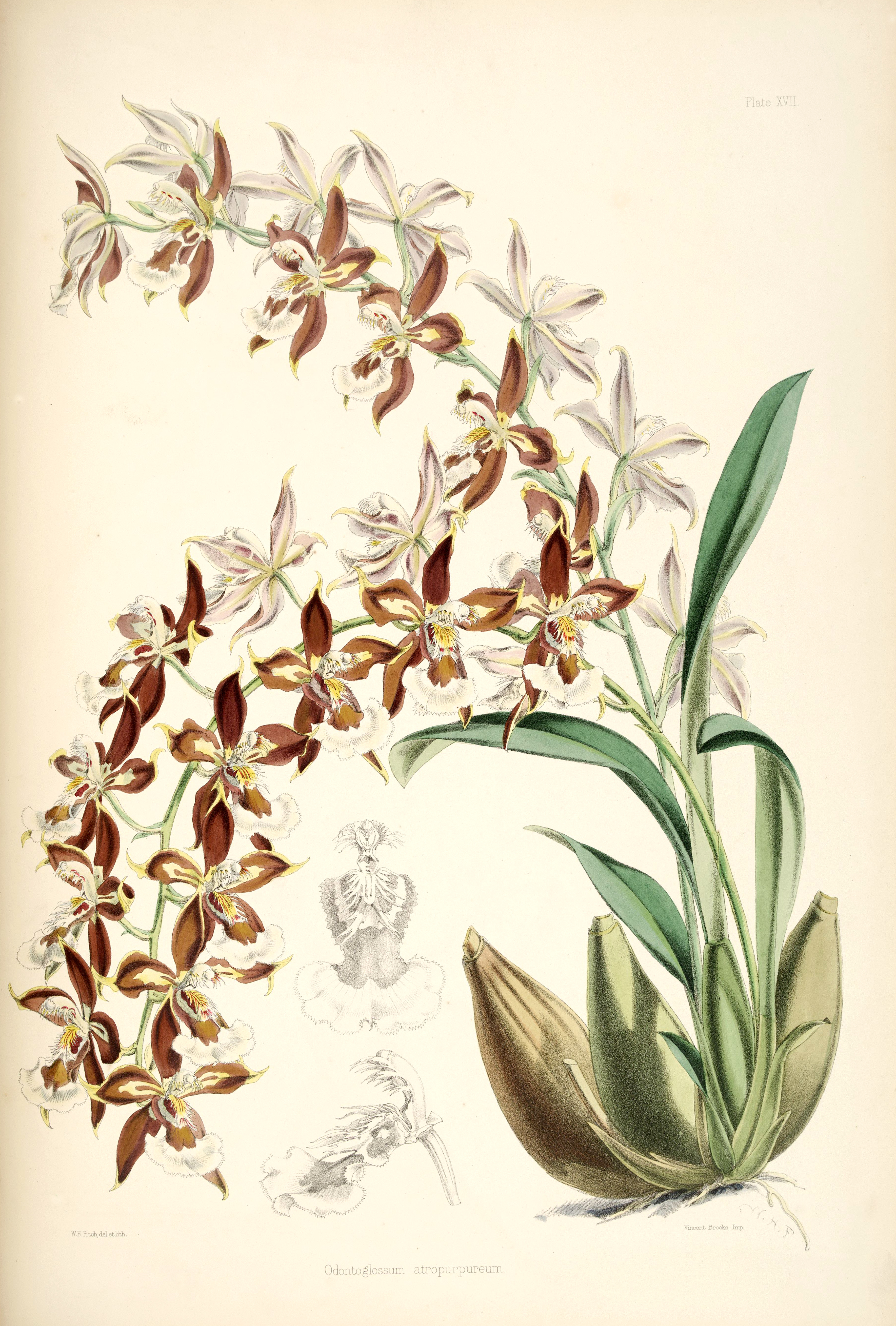 Illustration of Odontoglossum luteopurpureum (spelled Odontoglossum luteo-purpureum)